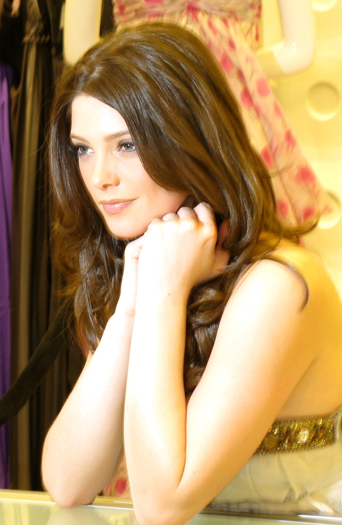 ashley greene did an appearance at saks 5th ave in nyc.